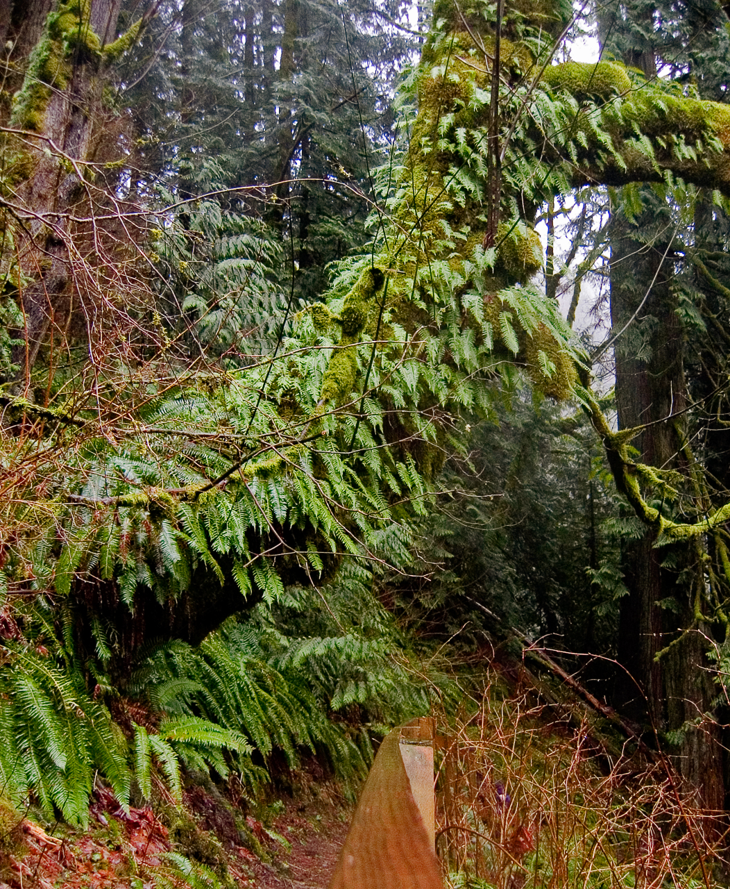 Epiphytes, Ferns on a tree. – Ferny Tree, Very Ferny. One of the many "sky garden" moss and fern covered trees on the trail to Twin Falls (also called Upper Snoqualmie Falls) near Seattle, USA. This trail amazed us. Perhaps the best example of Pacific Northwest rainforest within a 30 minute drive from Seattle, USA.